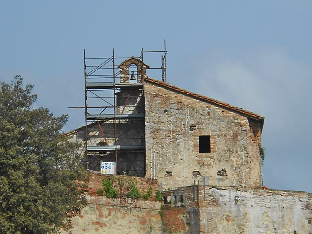 the interior church